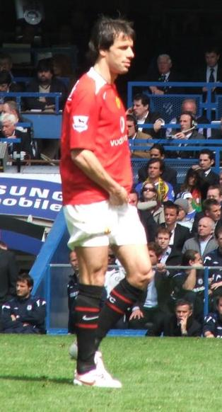 Ruud van Nistelrooy playing for Manchester United. Cropped from original source.